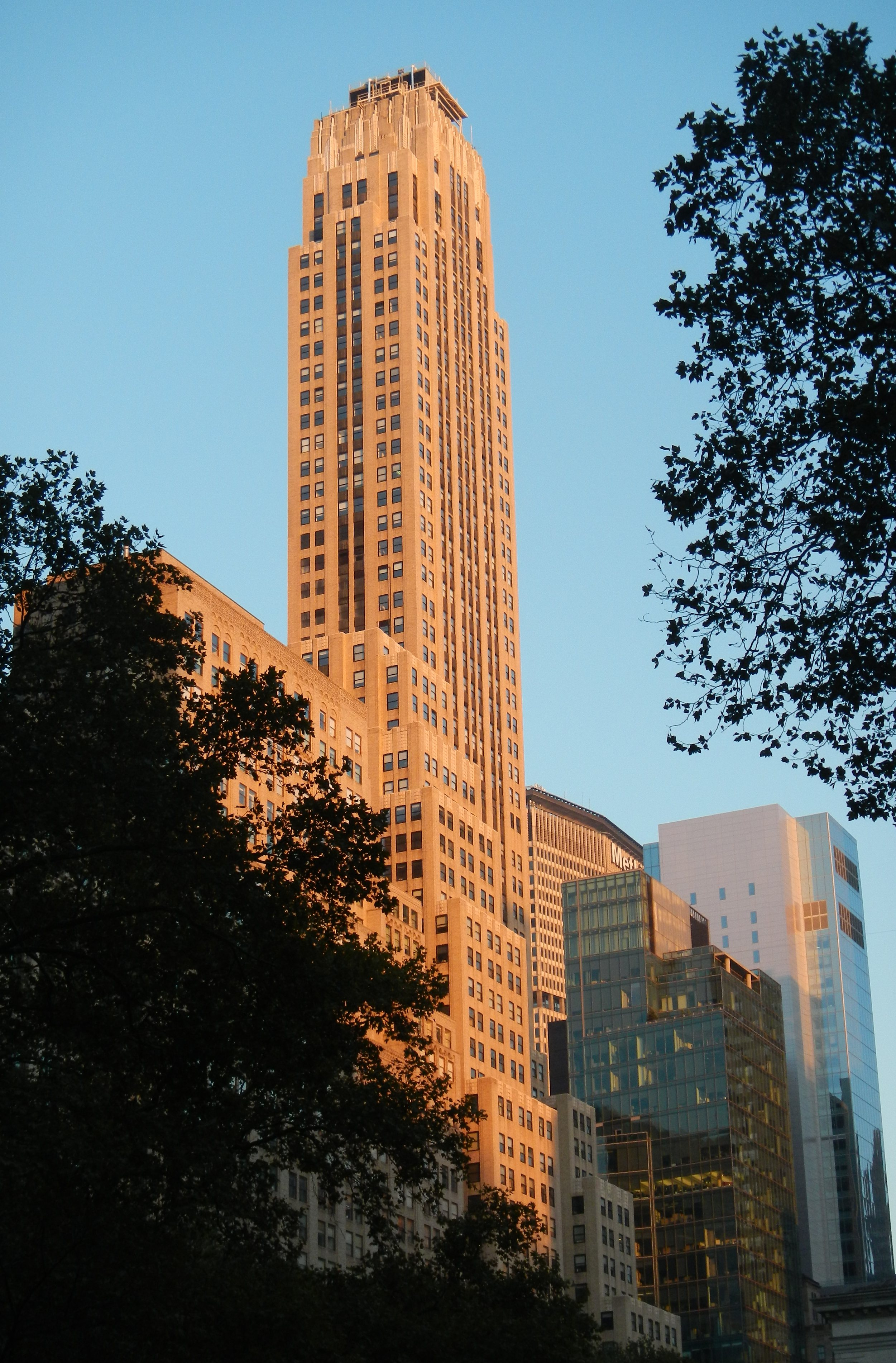 Looking east across 6th Avenue and Bryant Park, at 500 Fifth on a sunny late afternoon.